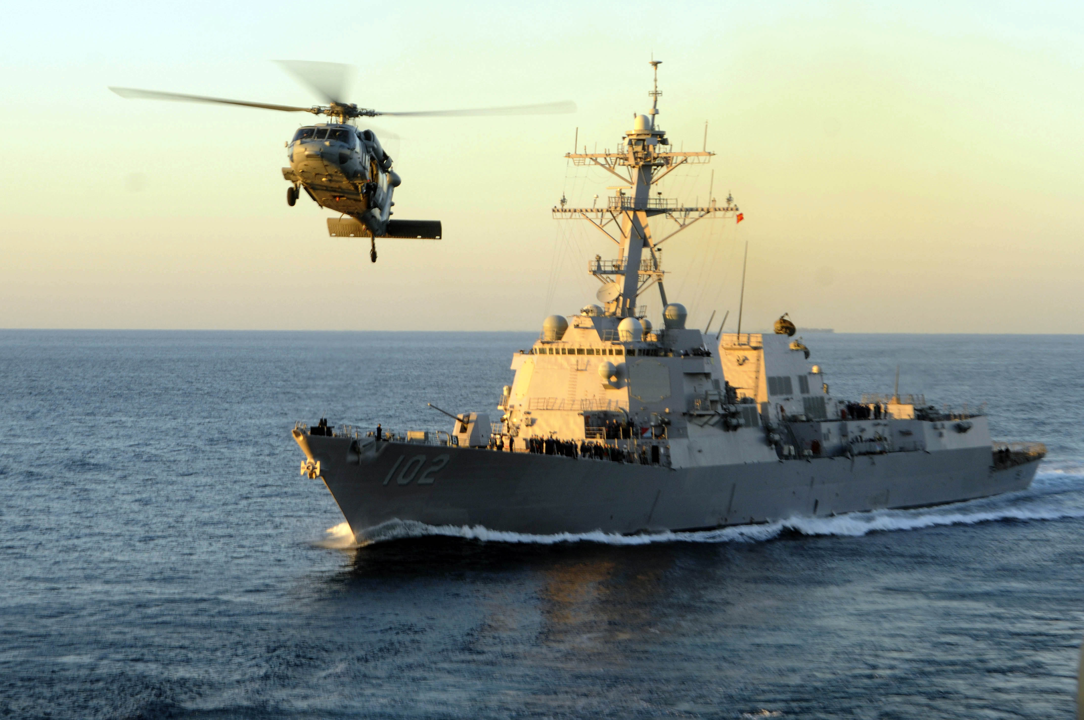 NORTH ARABIAN SEA (Jan. 14, 2010) The guided-missile destroyer USS Sampson (DDG 102) and an MH-60S Sea Hawk helicopter assigned to the Wildcards of Helicopter Sea Combat Squadron (HSC) 23 embarked aboard the aircraft carrier USS Nimitz (CVN 68) operate during a replenishment at sea. The Nimitz Carrier Strike Group is on a routine deployment to the U.S. 5th Fleet area of responsibility. (U.S. Navy photo by Mass Communication Specialist 2nd Class John Philip Wagner Jr./Released)